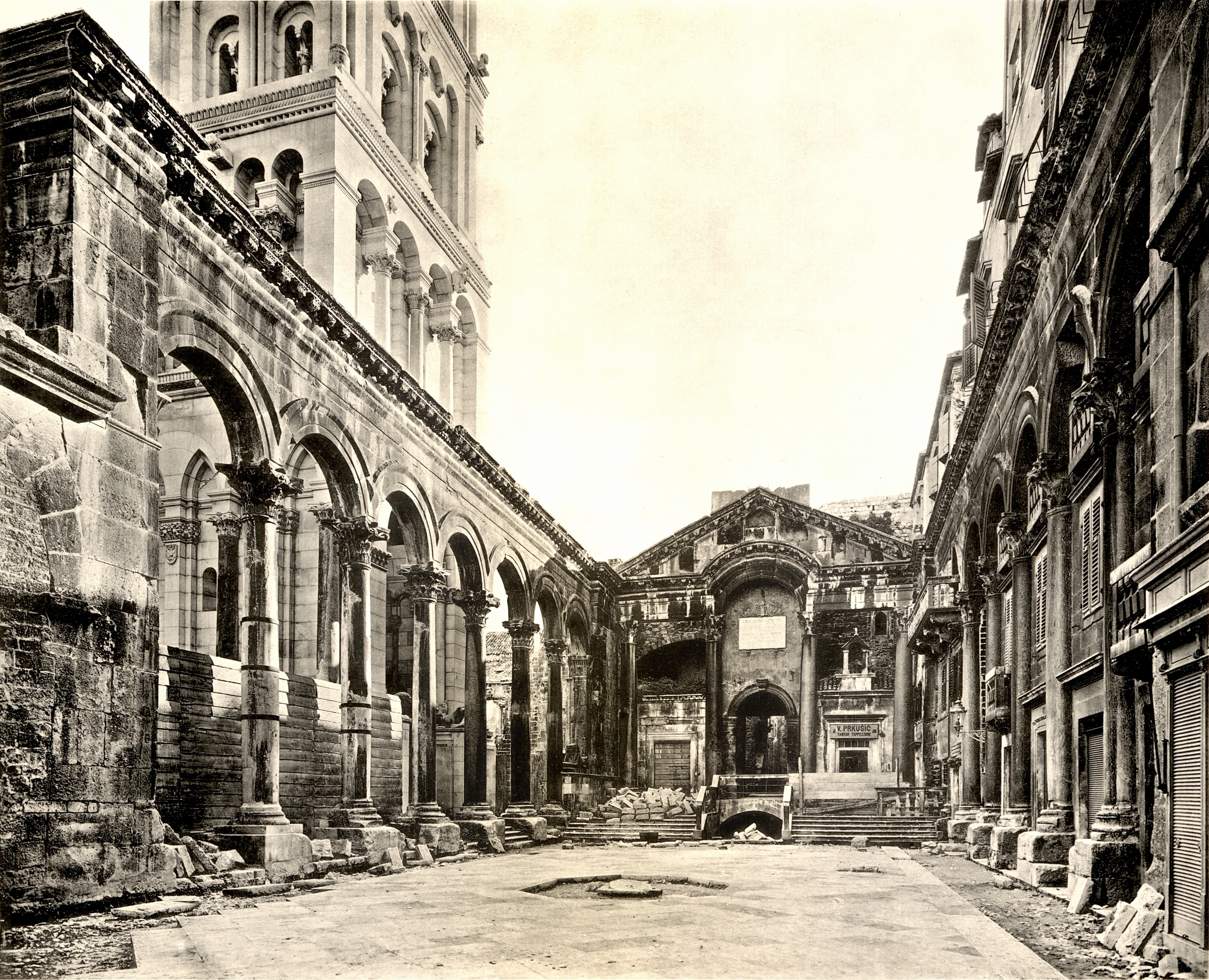 Denkmäler der Kunst in Dalmatien, Herausgegeben von Georg Kowalczyk, mit einer Einleitung von Cornelius Gurlitt. 132 Lichtdrucktafeln nach Naturaufnahmen des Herausgebers Georg Kowalczyk sowie nach Kupfern aus dem Werke von Robert Adam: Ruins of the Palace of the Emperor Diocletian at Split, 1764 Wien, 1910, Verlag von Franz Malota Scanprojekt Bundesdenkmalamt Österreich This scan or this PDF-file was created within the Austrian Wikipedia-project Denkmalpflege Österreich (German only) supported by Wikimedia Germany and Wikimedia Austria as part of the Wikipedia community-project to collect public domain documents from the library of the Heritage Monuments Board of Austria. This document describes or depicts an object which is located in Croatia today. Texts are written in German language. Send requests for uncompressed scans to Hubertl. This work is in the public domain in its country of origin and other countries and areas where the copyright term is the author's life plus 100 years or fewer. You must also include a United States public domain tag to indicate why this work is in the public domain in the United States. This file has been identified as being free of known restrictions under copyright law, including all related and neighboring rights.